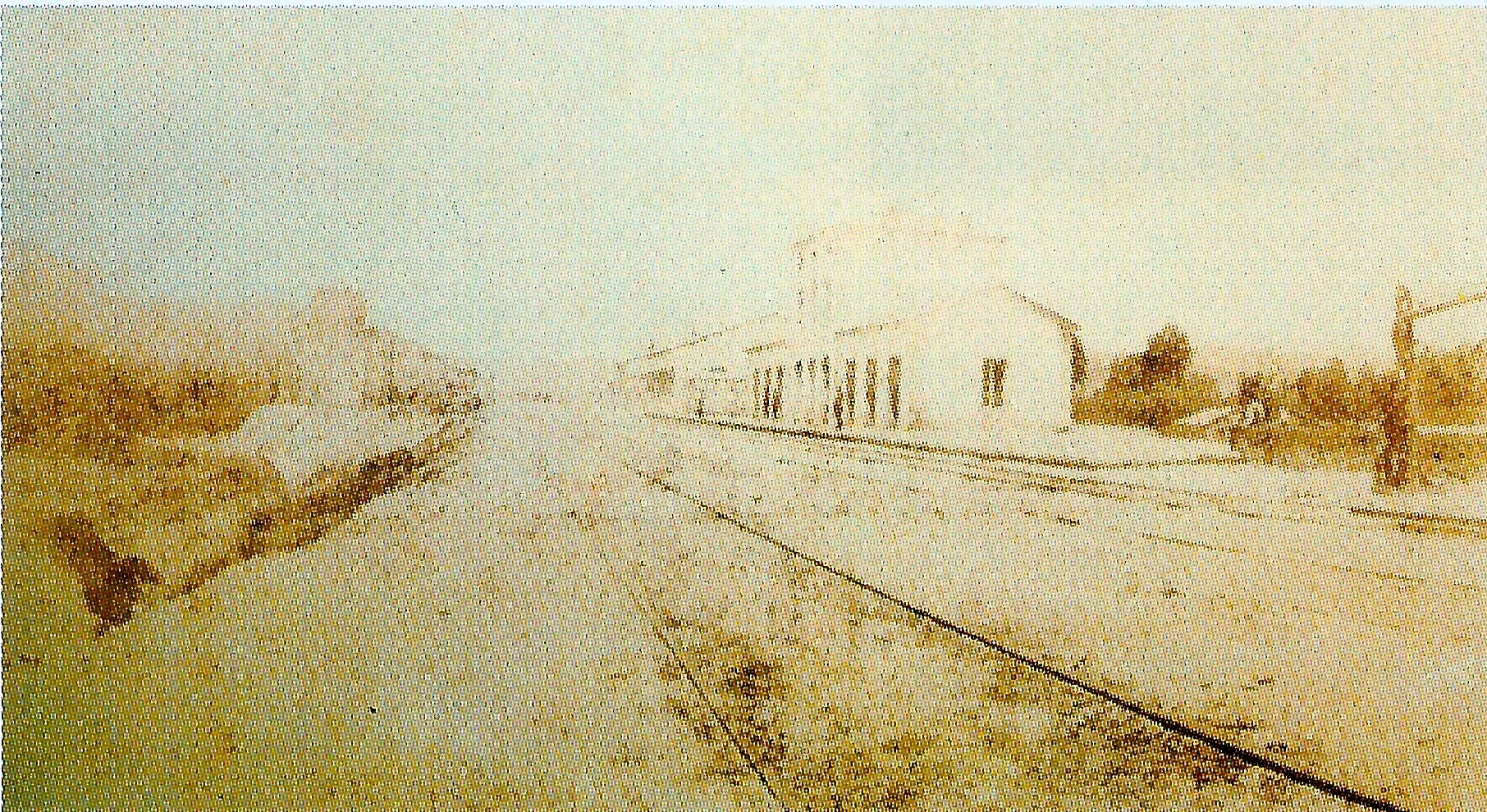 Abrantes Railway Station, in Portugal. The photograph was taken in the second half of the 19th Century.